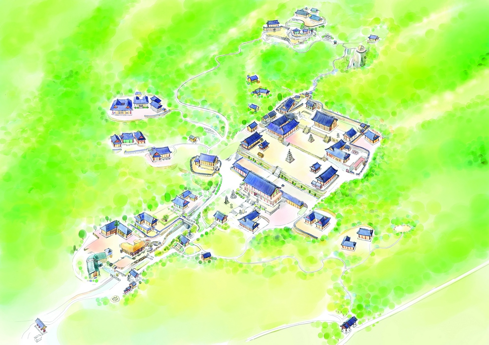 The Sudeok temple in South Korea